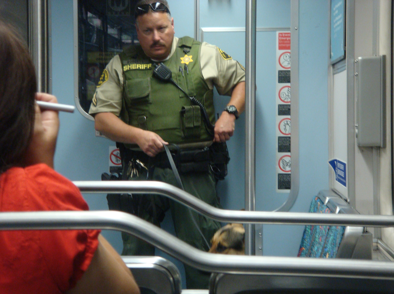 A Los Angeles Sheriff's Department deputy patrols a LA Metro light rail train.